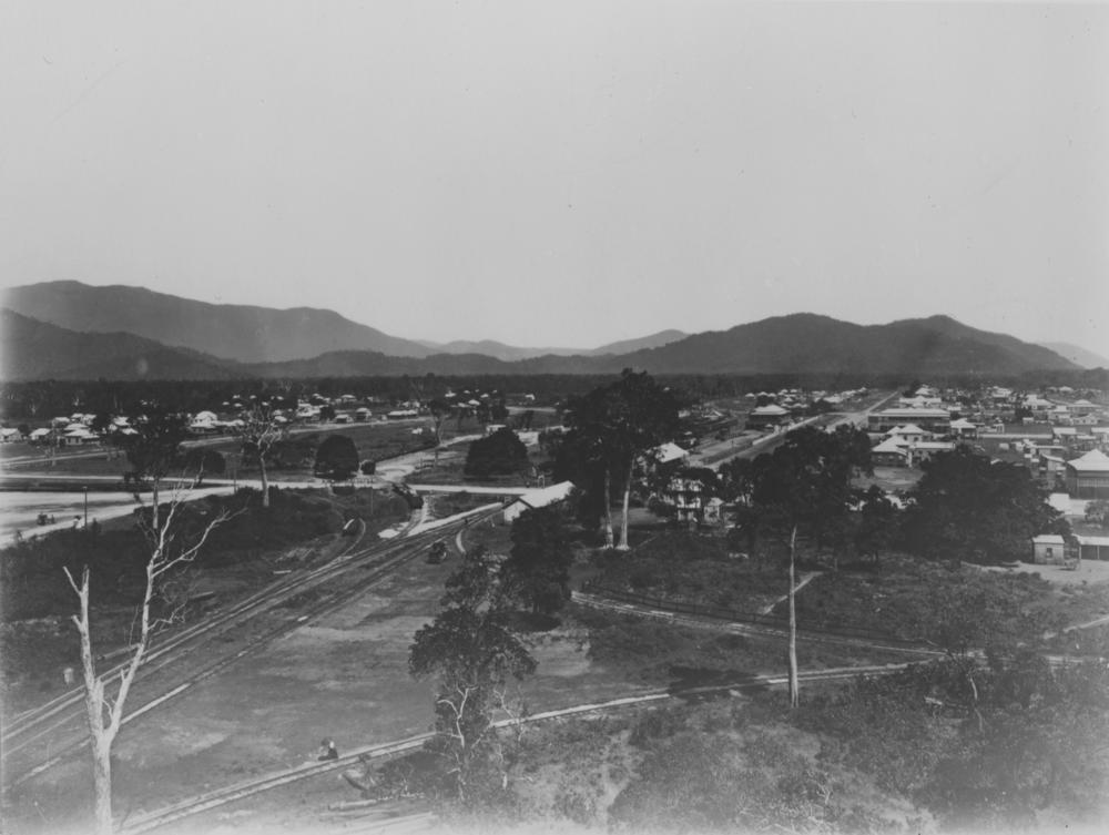 Early view of Cairns with road and street patterns, ca. 1900. Reproduced from an original glass negative no. 259.